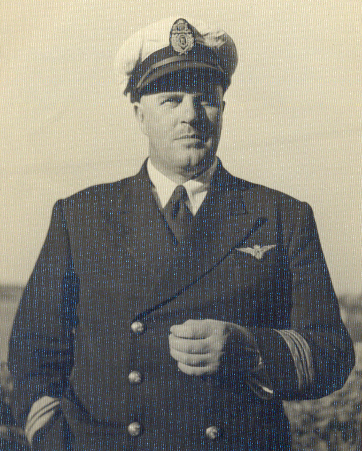 Captain Albert Aubrey Koch in Qantas uniform c1942.